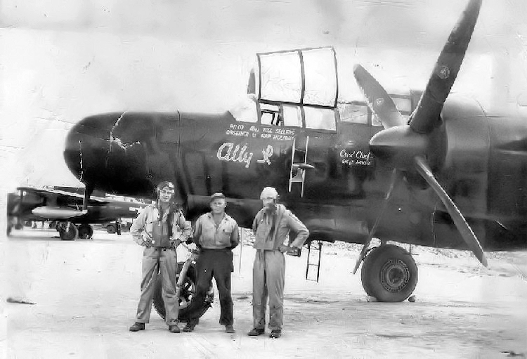 Northrop P-61B-15-NO Black Widow 42-39588, 418th Night Fighter Squadron at McGuire Field, Mindoro, Philippines. Aircraft assigned to the second commanding officer of the 418th, Major William B. (Bill) Sellers (on left). Aircraft was named after his wife Alice Ruth.